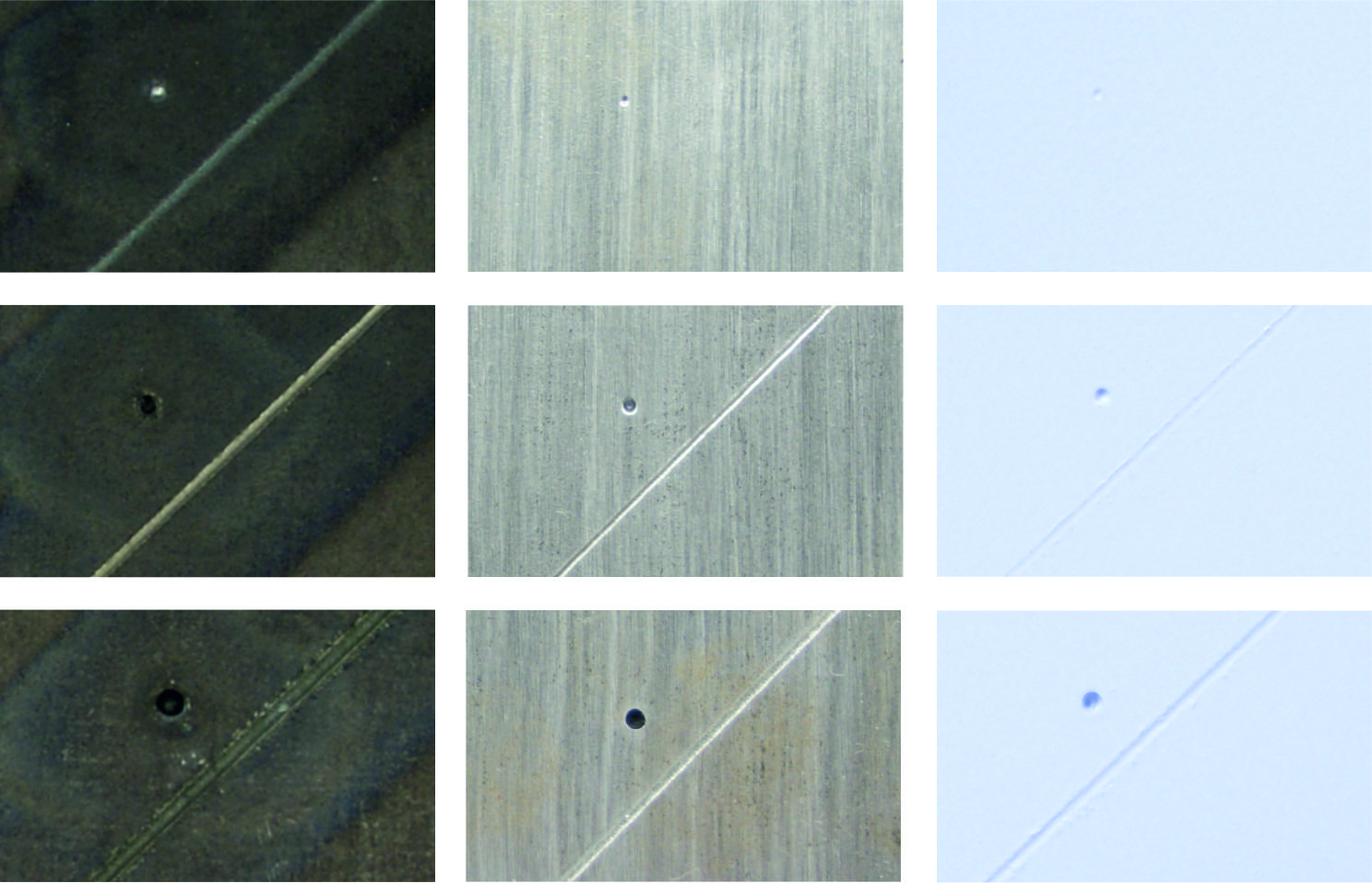 Marking, notching, punching